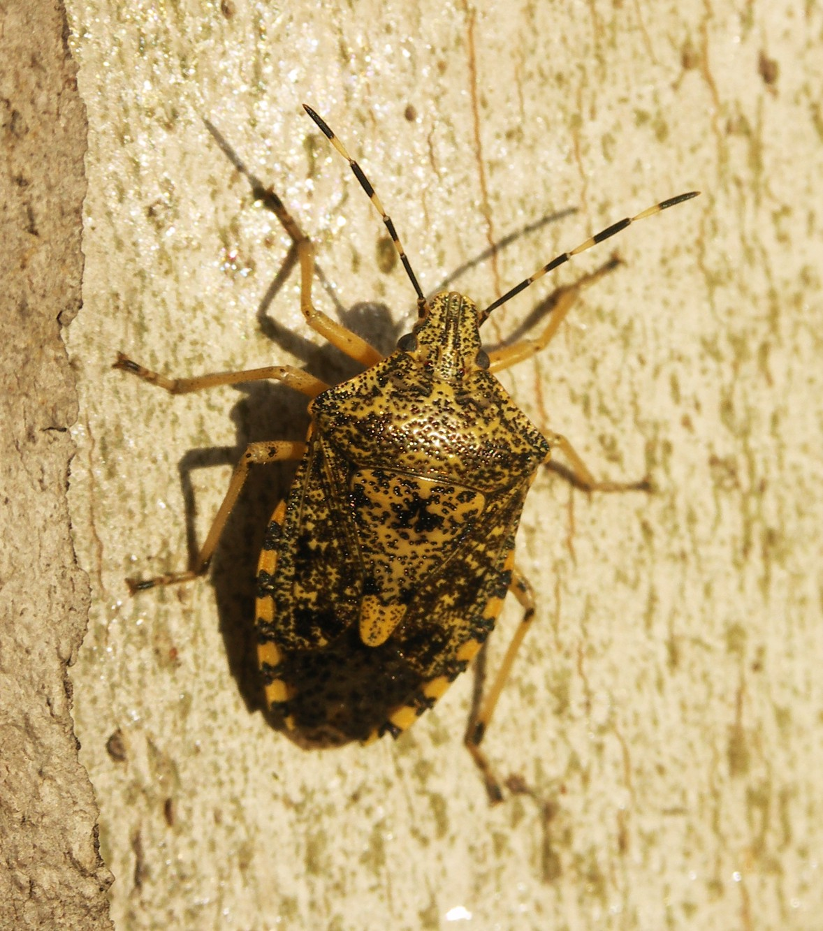 Bug of the family Pentatomidae, possibly a Raphigaster nebulosa